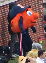 Otto the Orange at a football game